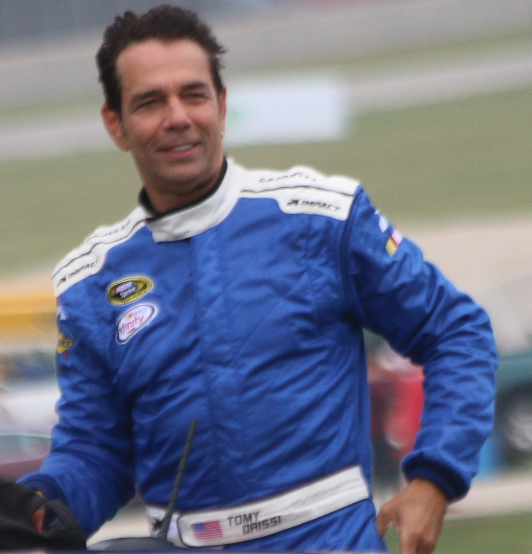 NASCAR driver Tomy Drissi at the Road America 180.